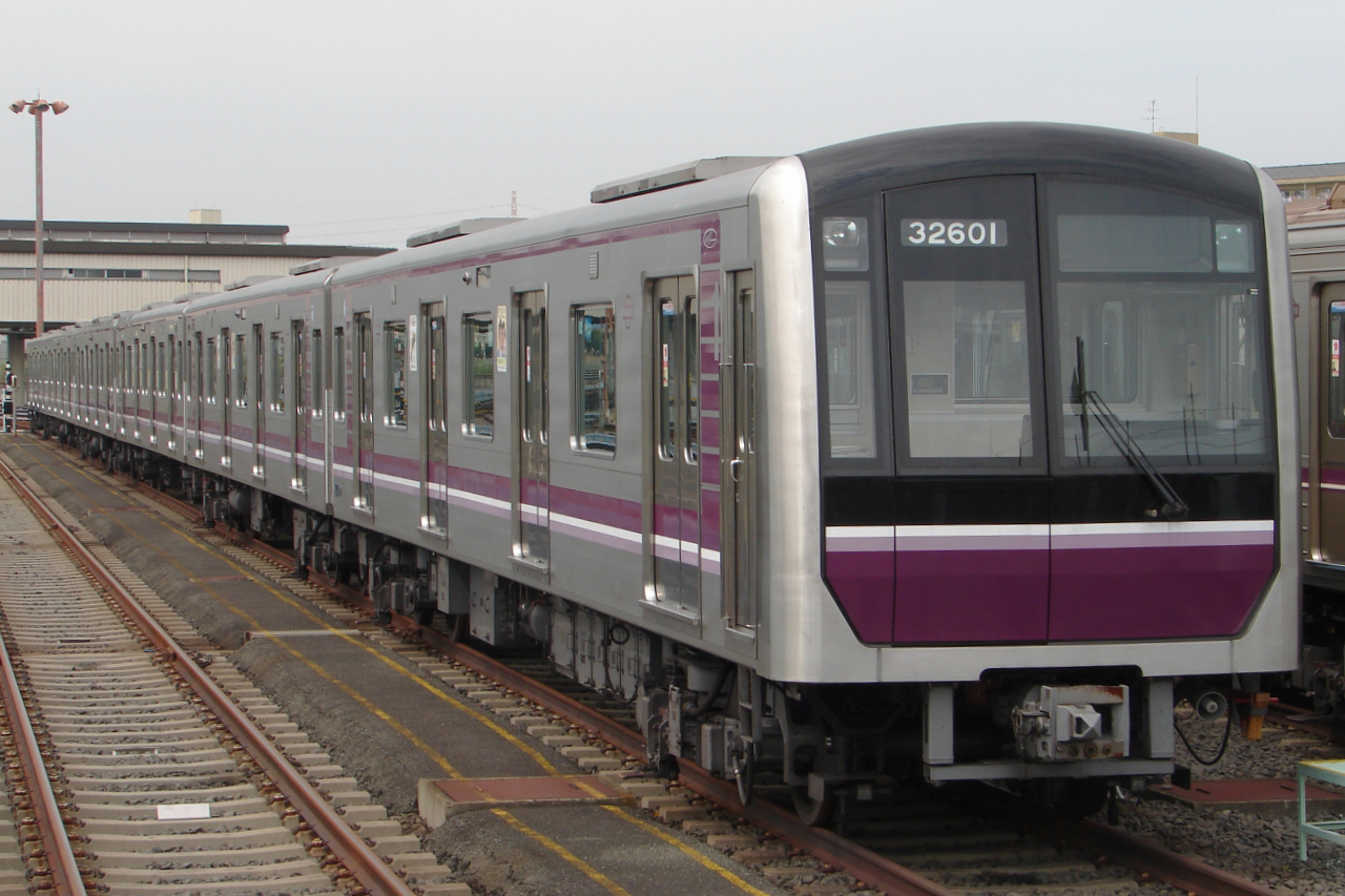 Osaka Subway 30000 series set 32601 at Yao Depot